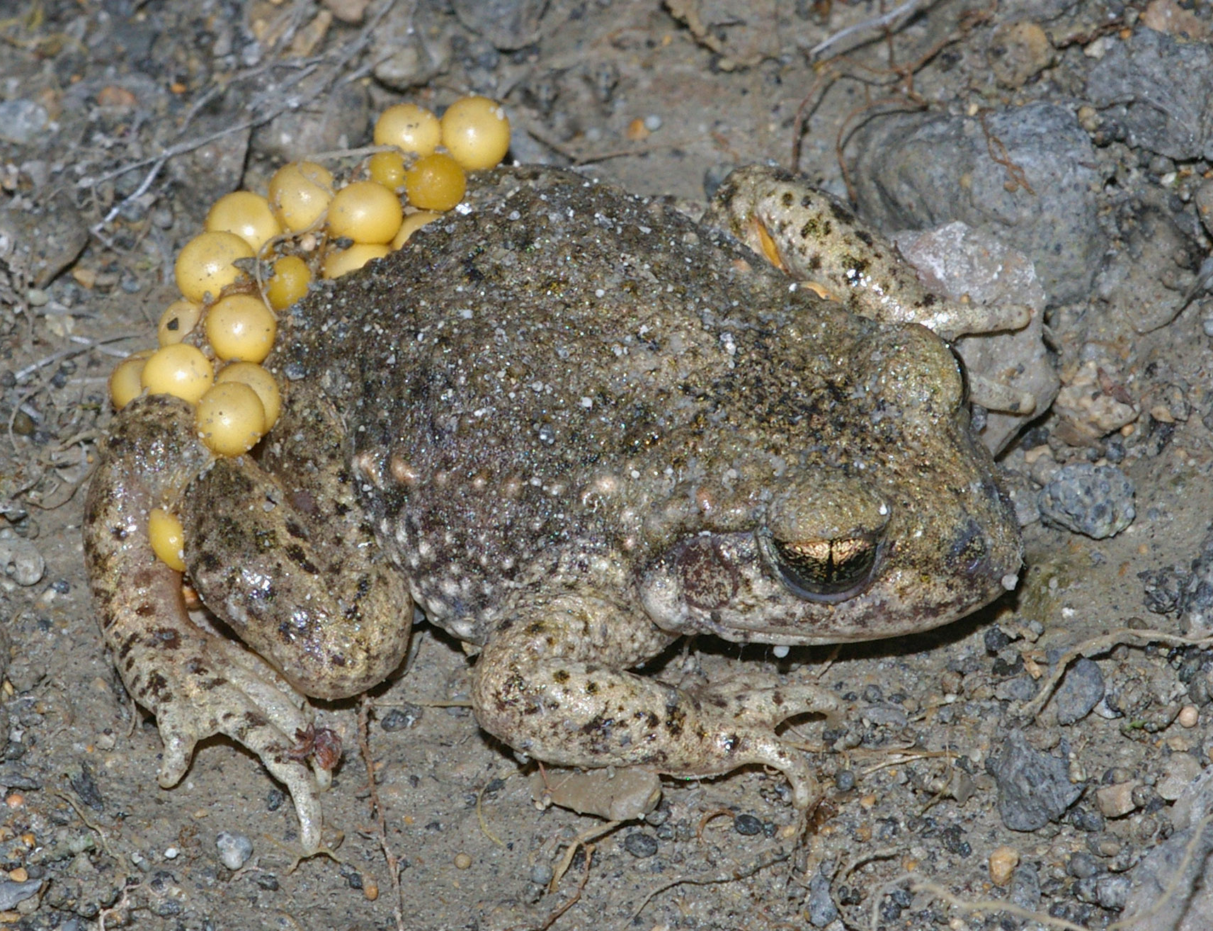 Male of the Common Midwife Toad, Alytes obstetricans, with (fresh) eggs at its hind legs.